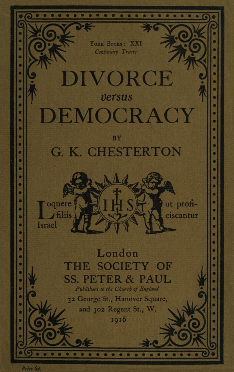 Divorce versus Democracy